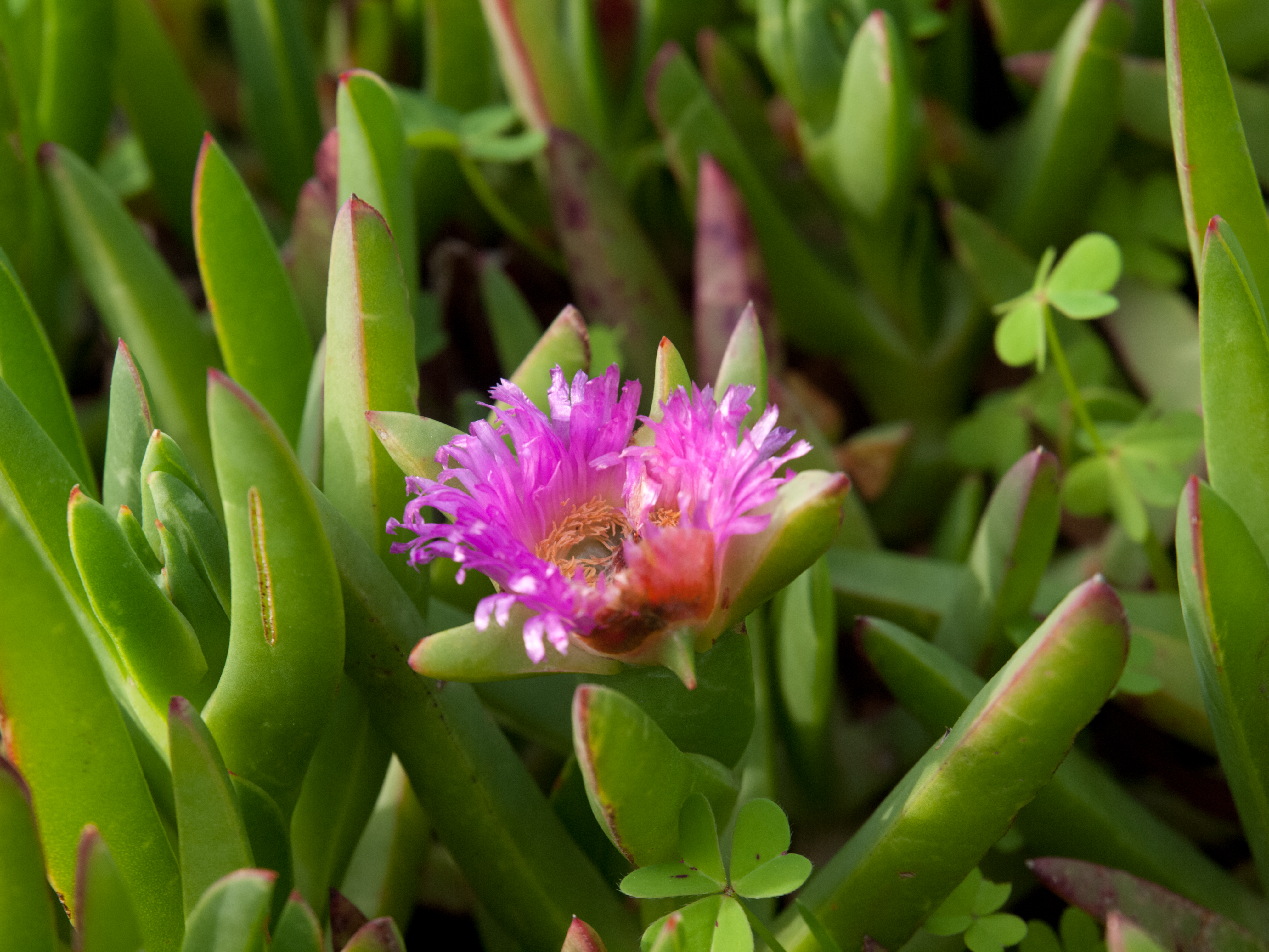 Sea fig (Carpobrotus chilensis)